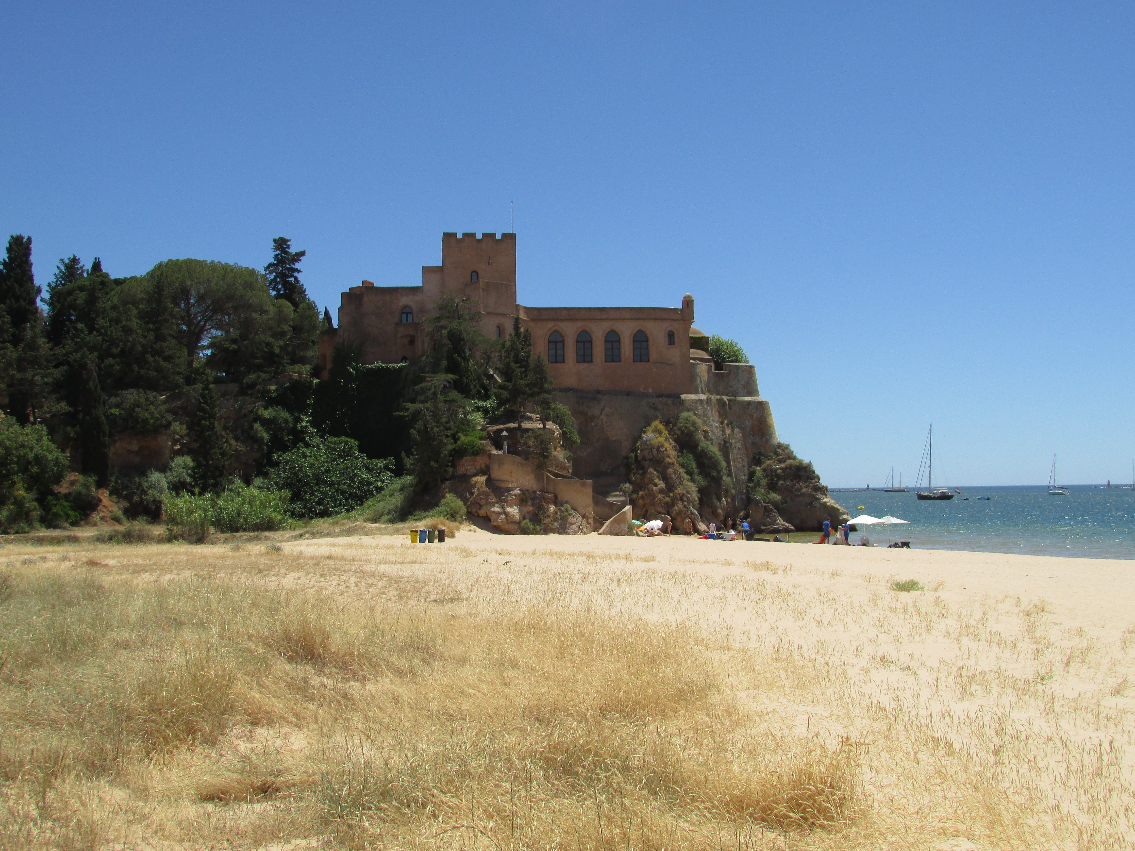 Overlooking the left margin of the Portimão estuary, the Castle of St. John of Arade (Castelo de São João de Arade) is situated at the mouth of the Arade River. This photo is viewed from Praia da Angrinha, south of the fishing village of Ferragudo, Algarve, Portugal.